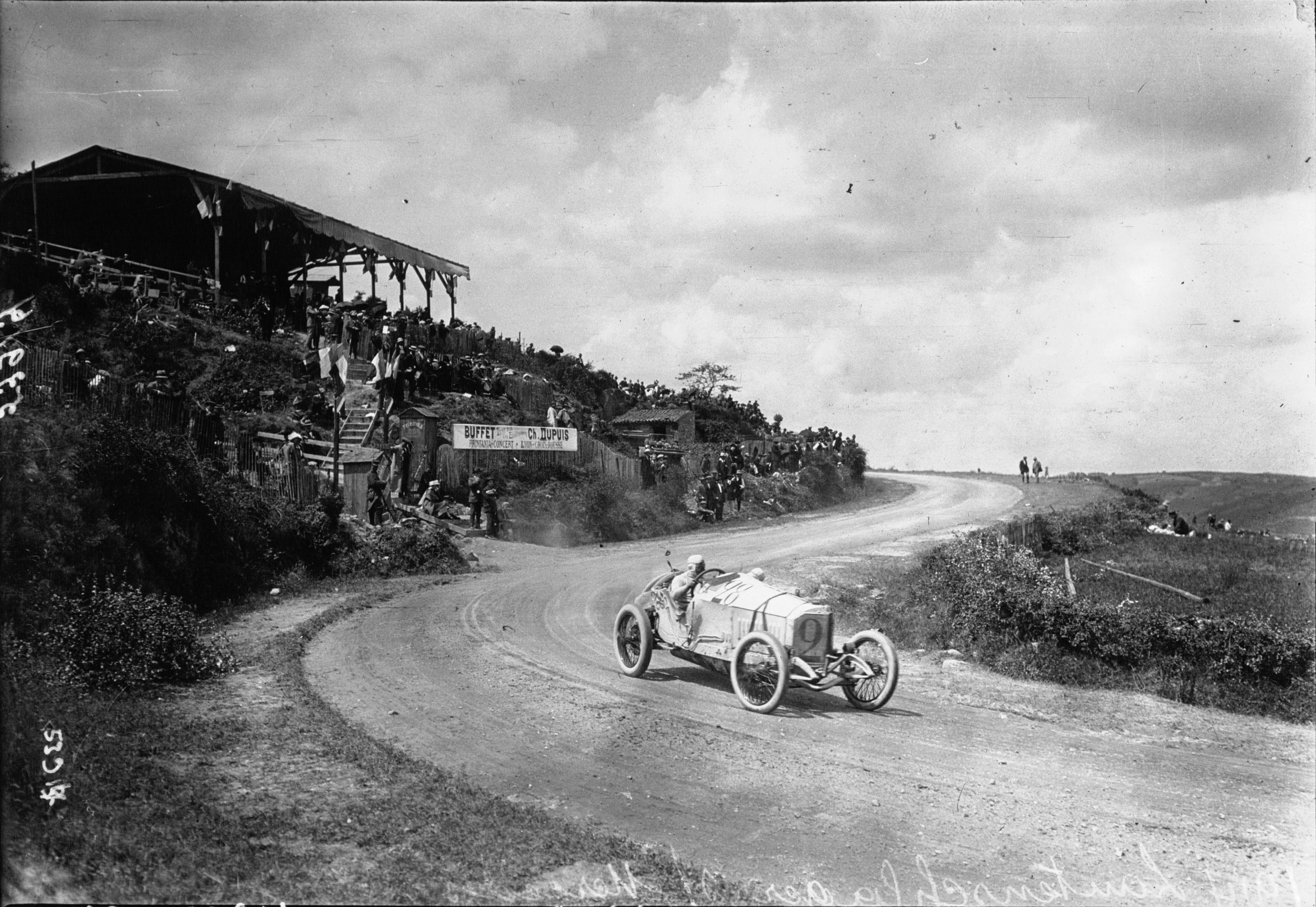 Christian Lautenschlager at the 1914 French Grand Prix.